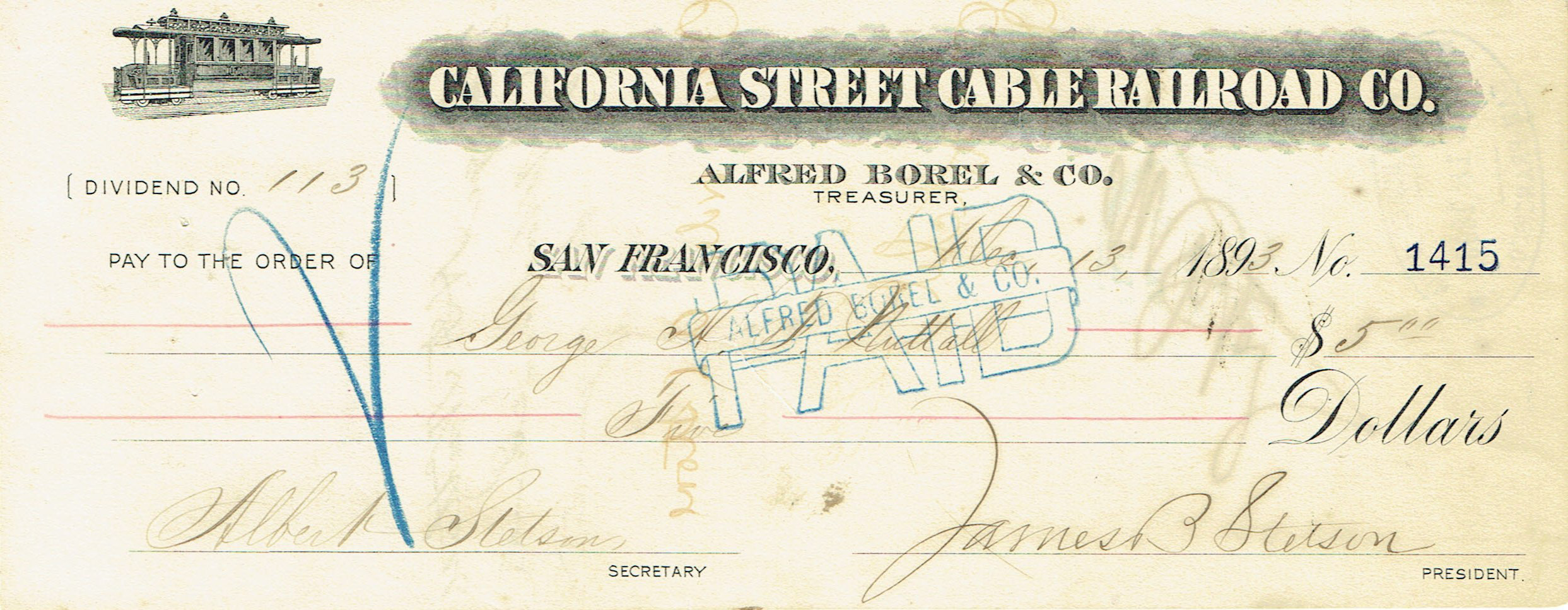 Check of the California Street Cable Railroad Co, issued 1893